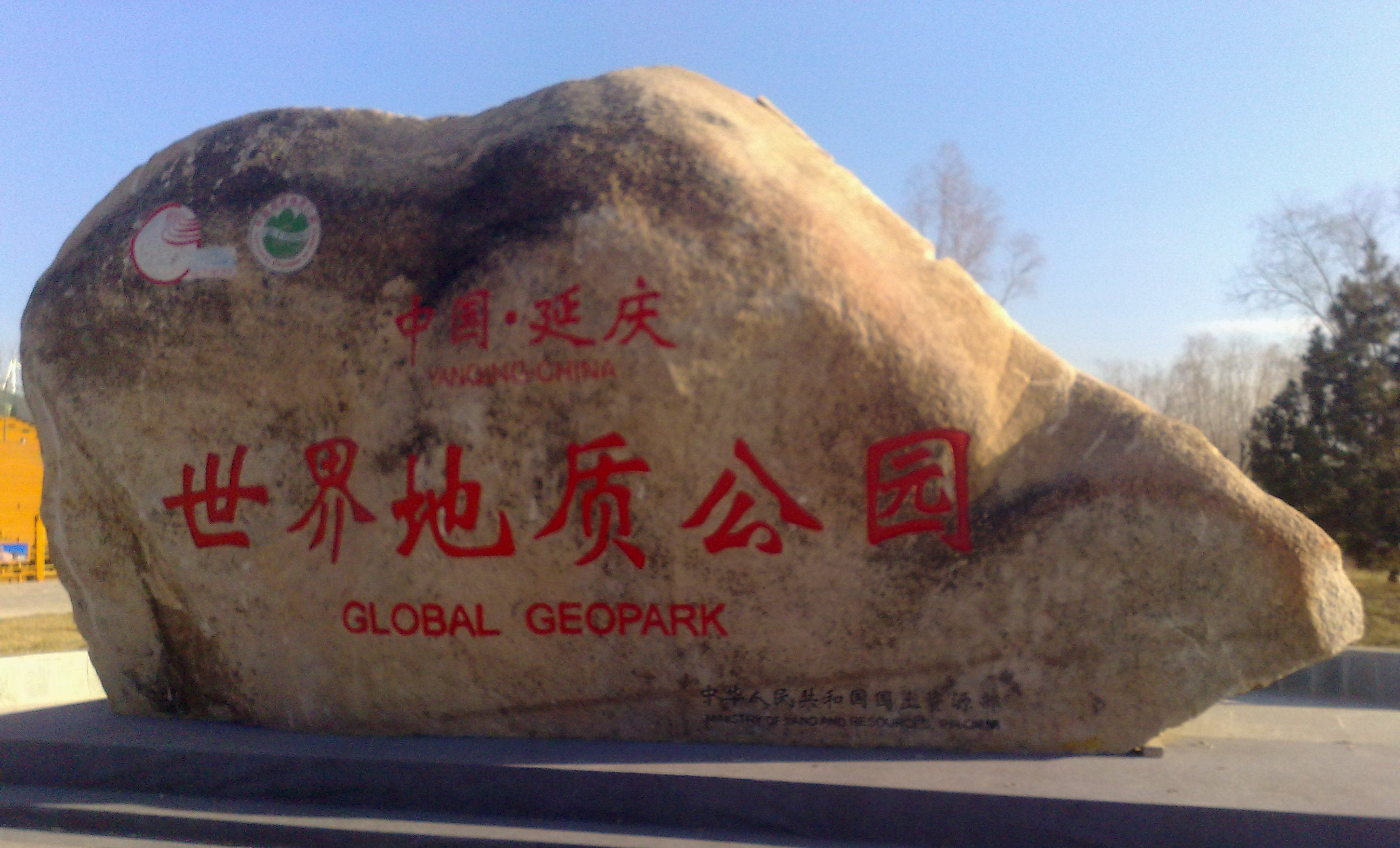 Yanqing Global Geopark of China